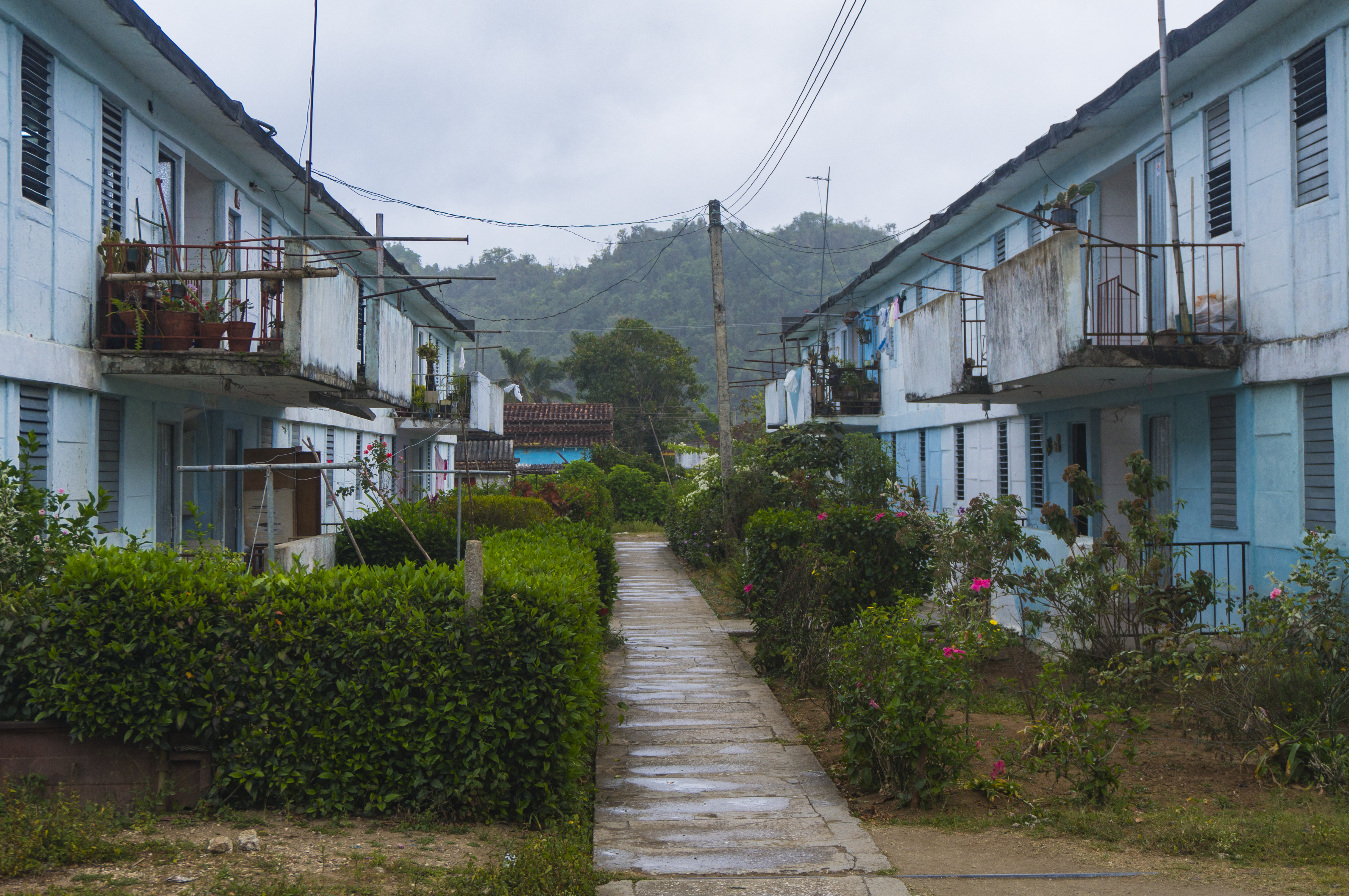 Bi-Plantas (Two story prefab buildings) popular during the late 60's and 70's in Cuban architecture. Jibacoa's town, Escambray Mountains, Villa Clara province, Cuba.